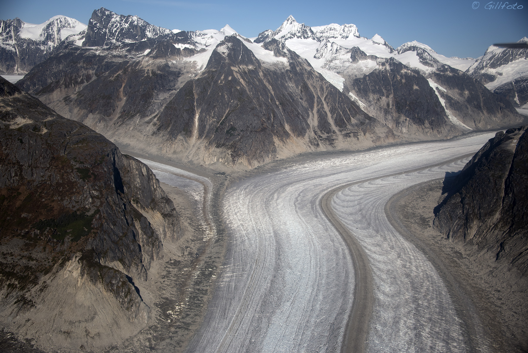 The Gilkey Glacier flowing west from the Juneau Icefield in Southeast Alaska.